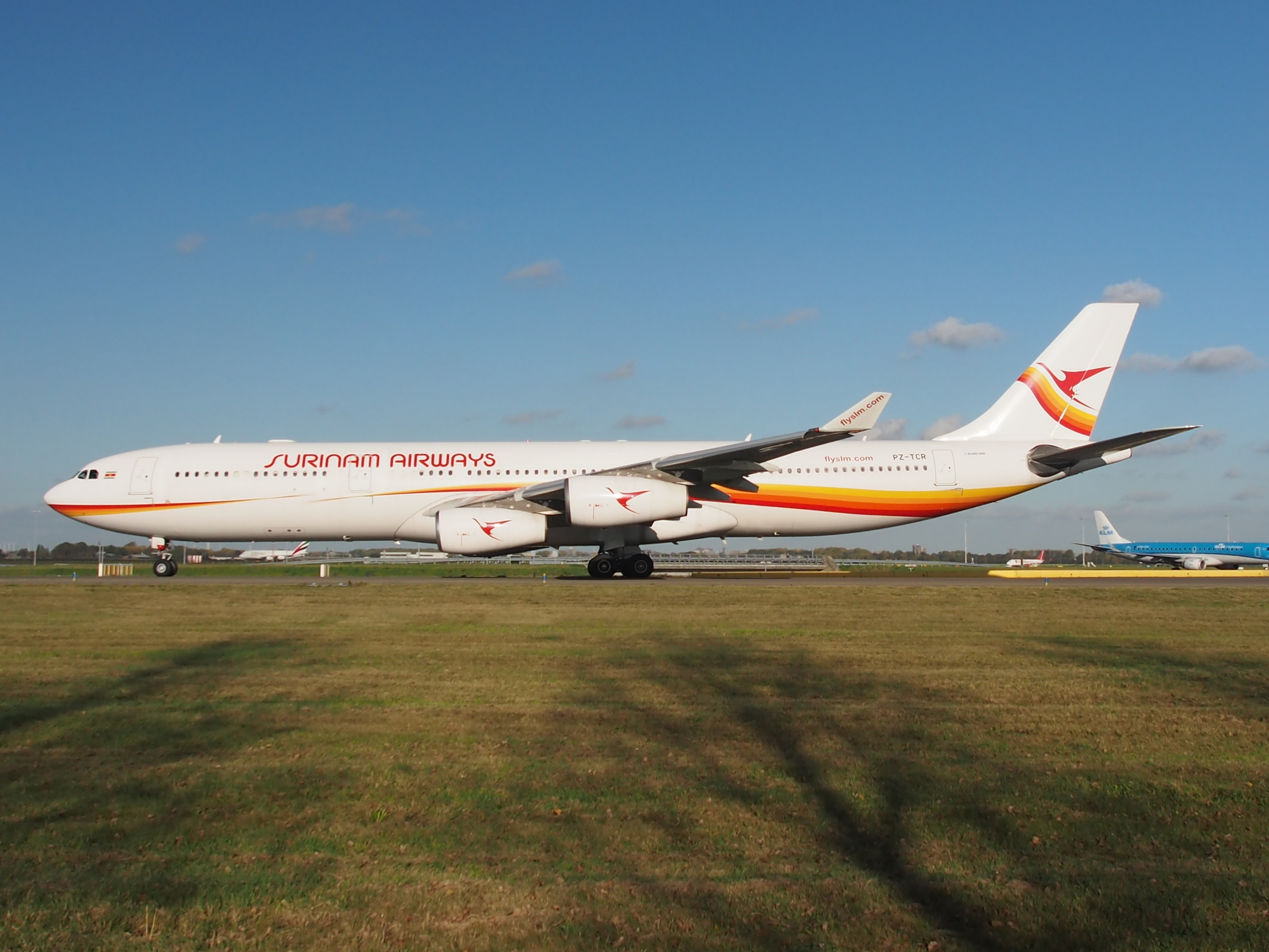 PZ-TCR (aircraft) taxiing at Schiphol towards runway 36L.